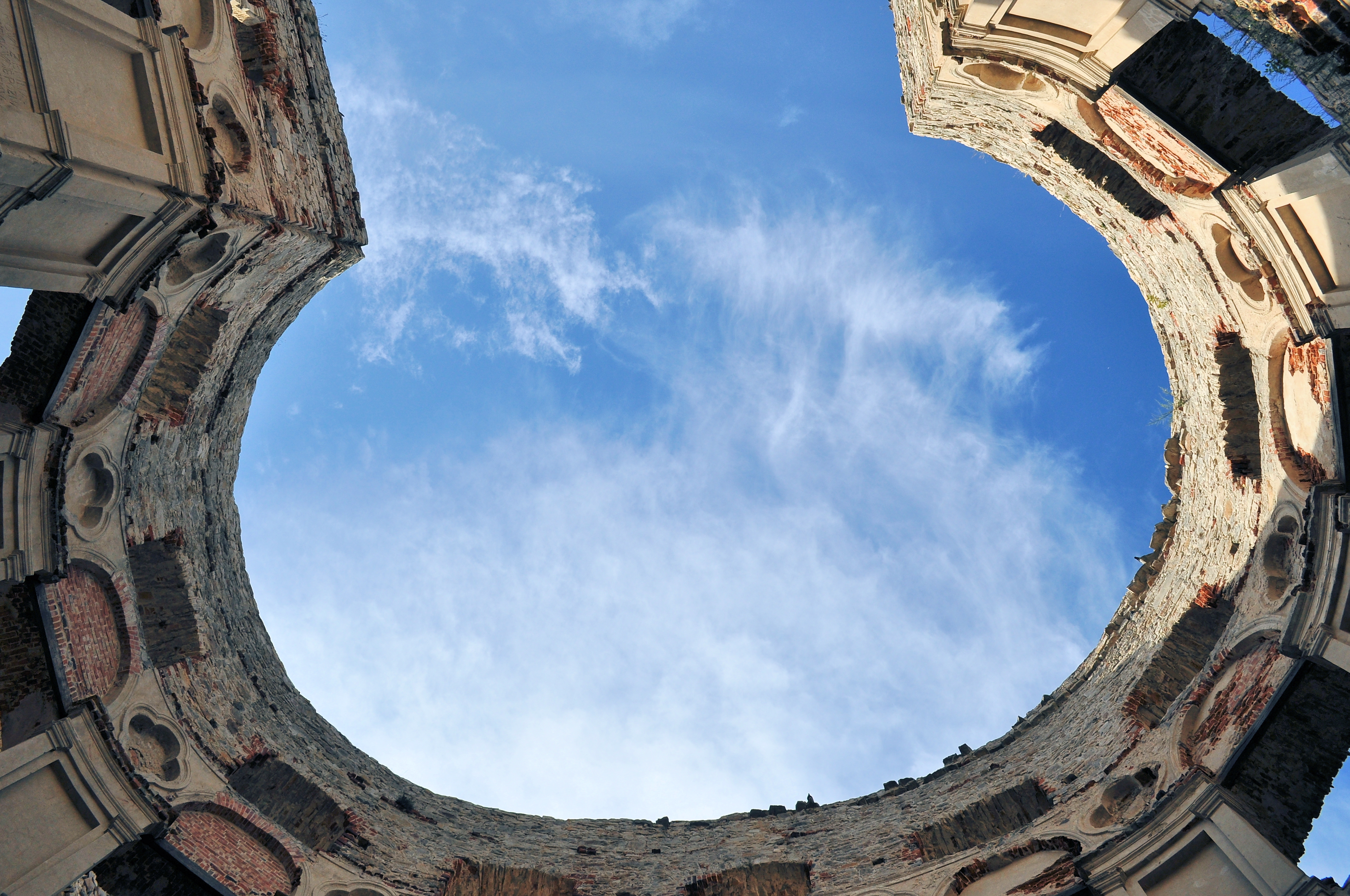 The ruins of Krzyżtopór Castle in Ujazd.